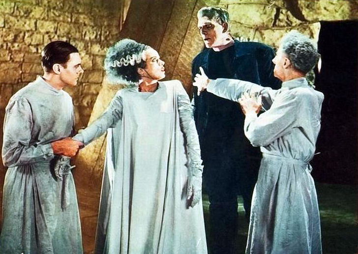 Cropped and edited lobby card for the 1935 film Bride of Frankenstein, featuring Colin Clive, Elsa Lanchester, Boris Karloff and Ernest Thesiger. This image is assumed to be in the public domain, as no copyright notice is in evidence